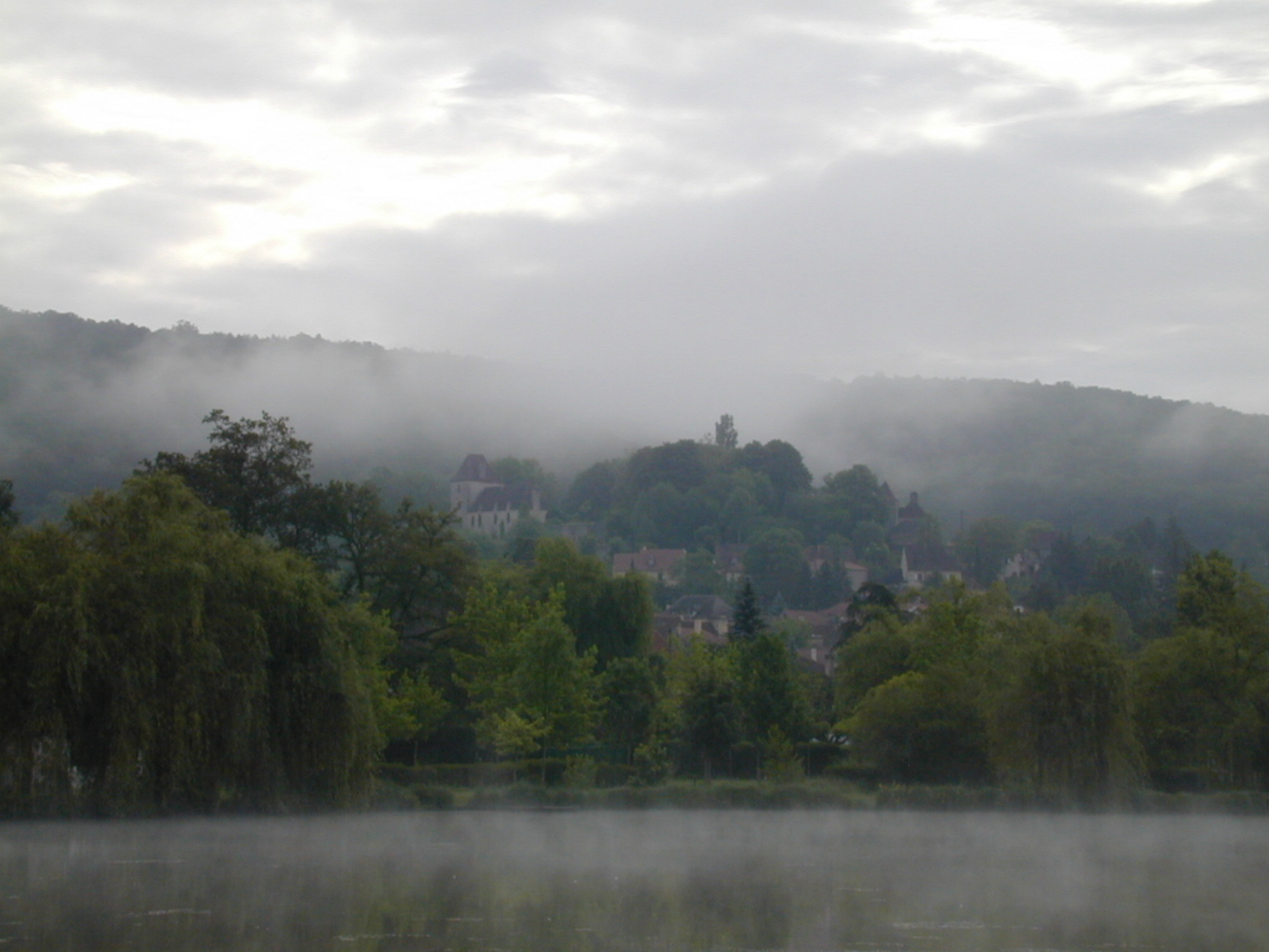 Dawn over the village of Cazals, Lot, Midi-Pyrénées, France.